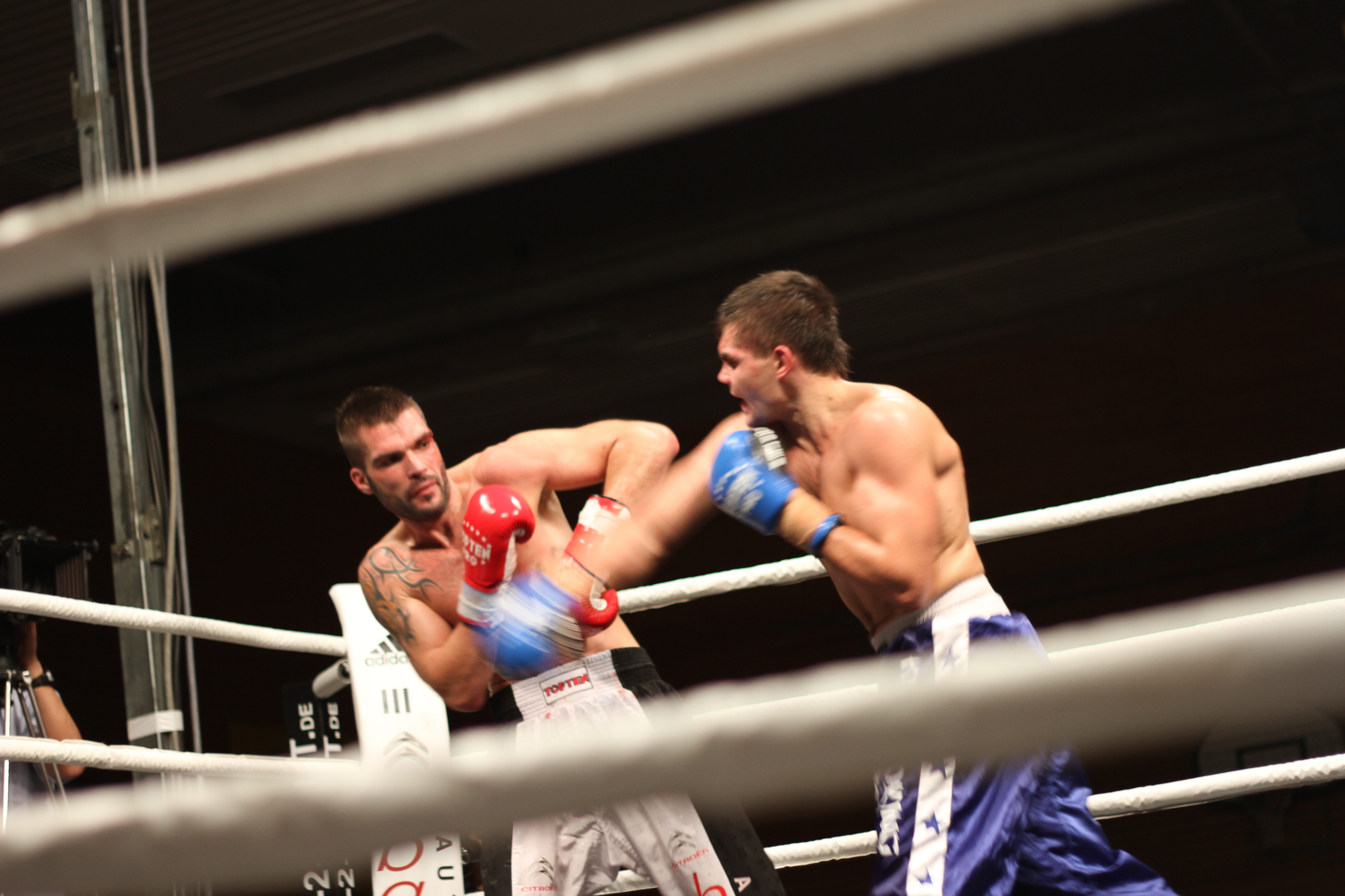 WAKO-PRO World championship Kickboxing 2011 in Rödental / Germany Alexey Rybkin vs. Ralf Krause